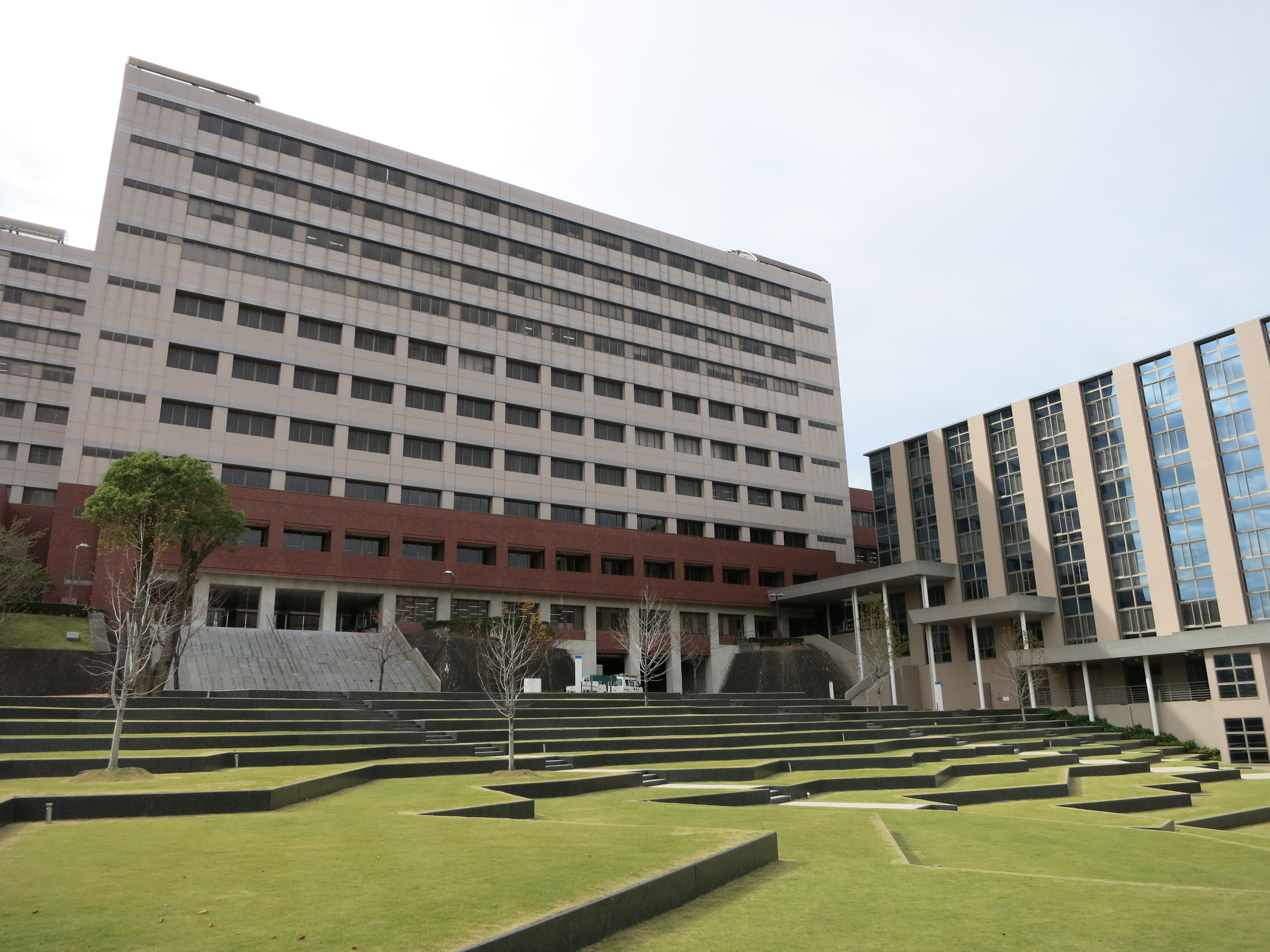 Kyushu Sangyo Univ